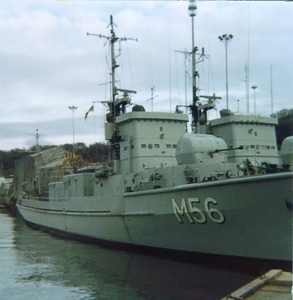 Swedish Navy minesweeper HMS Utö (M56) in 1977.